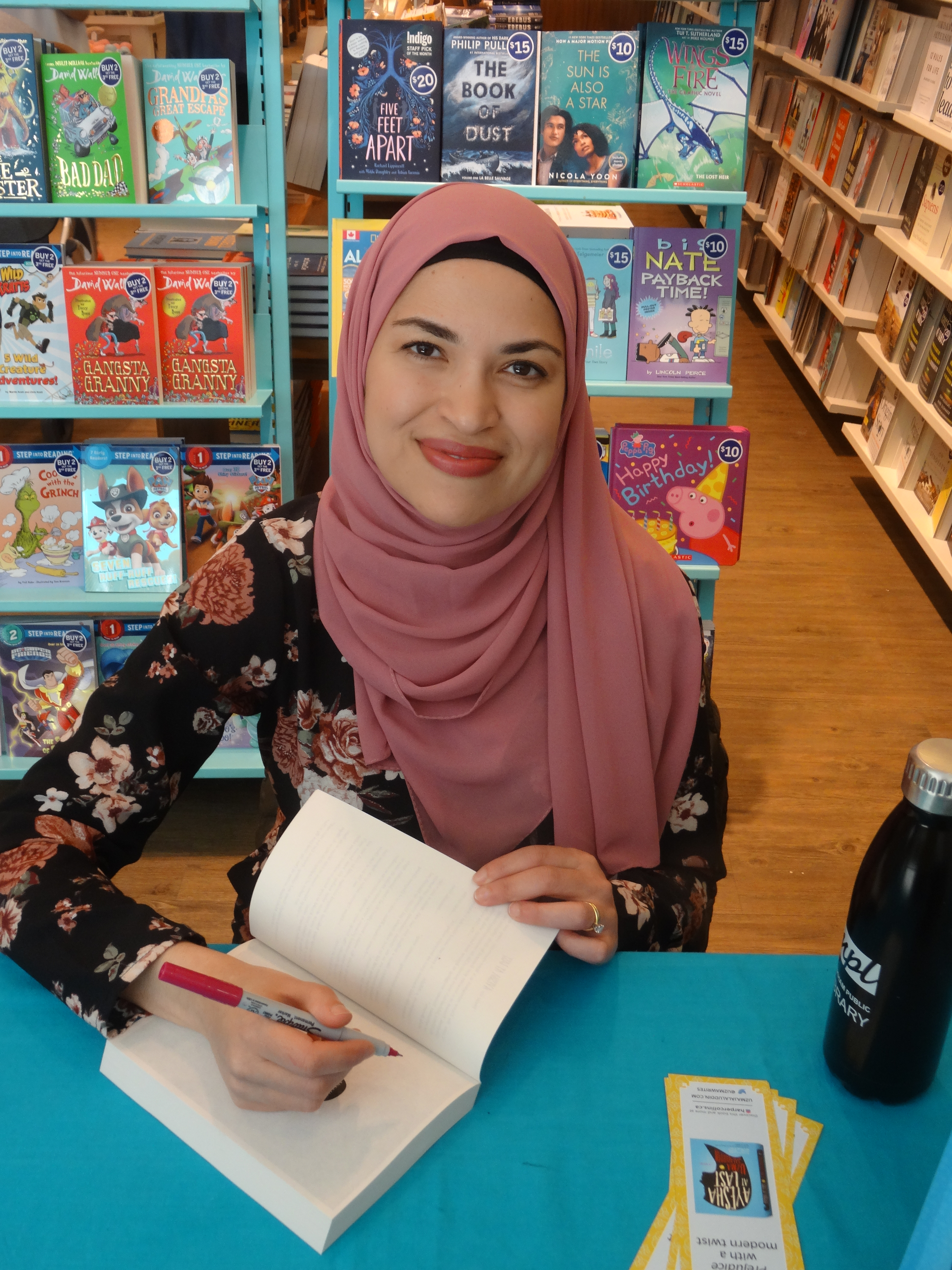 Uzma Jalaluddin signs her novel -a